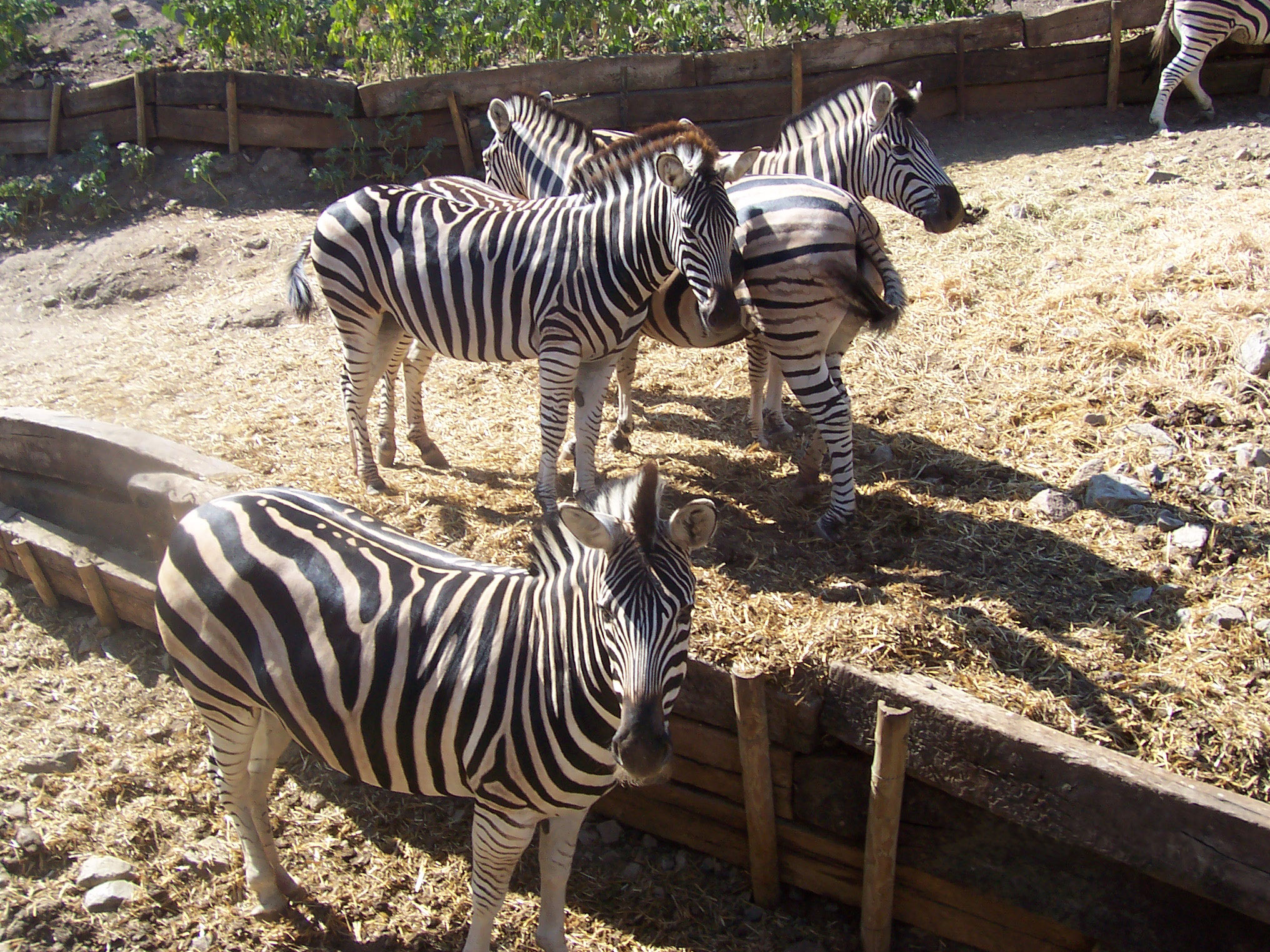 Small herd of Damara zebras (Equus quagga antiquorum) watching our truck go by in Selwo Adventure Park, Spain, 2007